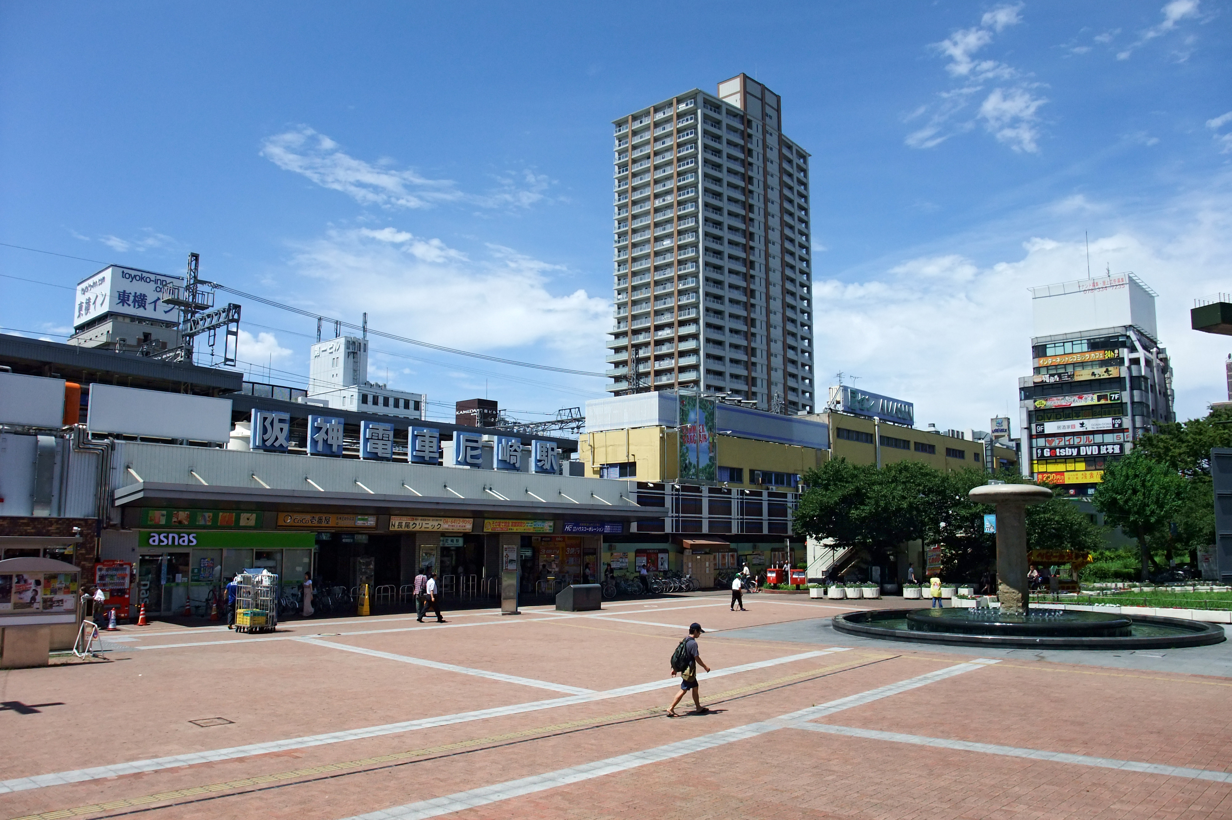 Amagasaki Station (Hanshin) in Amagasaki, Hyogo prefecture, Japan